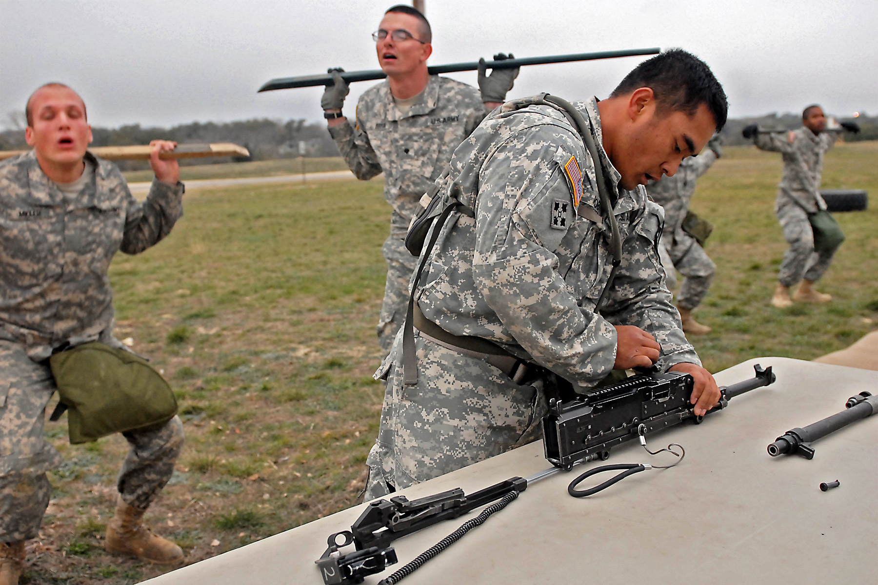 Soldiers assigned to Company C, 2nd “Lancers” Battalion, 5th Cavalry Regiment, 1st “Ironhorse” Brigade Combat Team, 1st Cavalry Division perform squat exercises while holding tank rods as another soldier disassembles and reassembles an M-240 machine gun during their first Tanker Olympics competition March 8, at Fort Hood, Texas. (Photo by Pfc. Paige Pendleton, 1st BCT, 1st Cav. Div. Public Affairs)